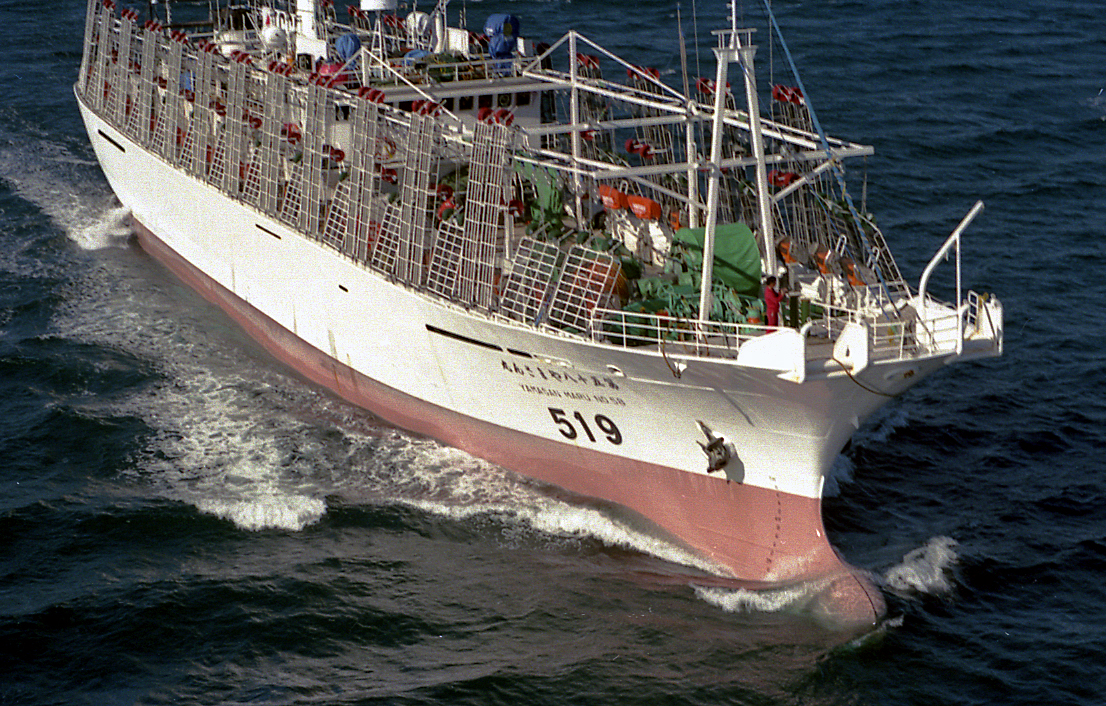 Long liner fishing boat, Cook Strait, New_Zealand. Photograph taken in 1988 from a helicopter.